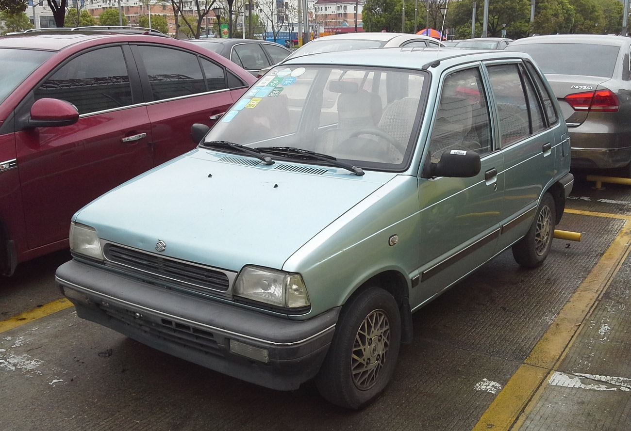 Chang'an Suzuki Alto photographed in Shanghai, China.